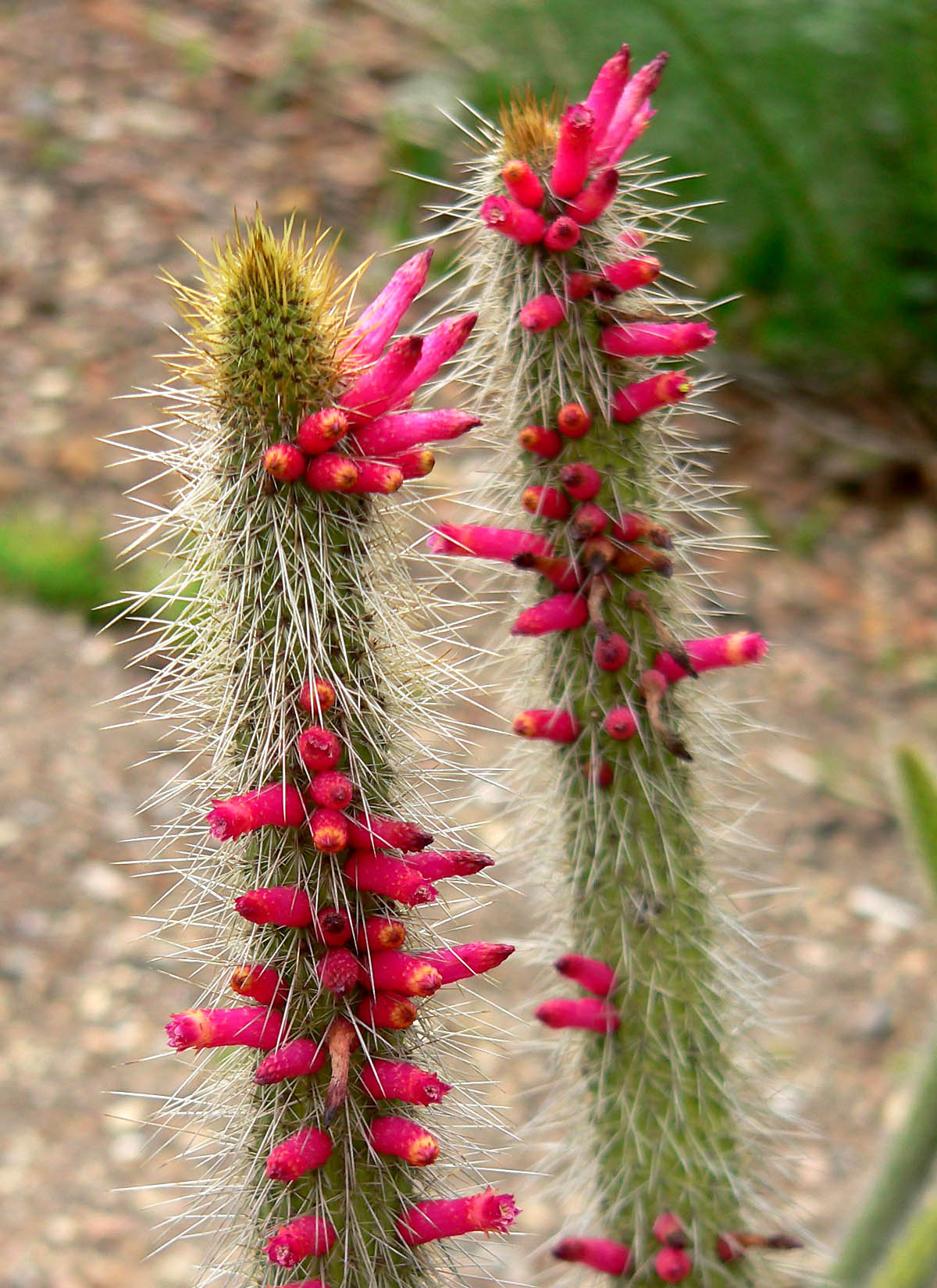 Photo of Cleistocactus candelilla at the University of California Botanical Garden